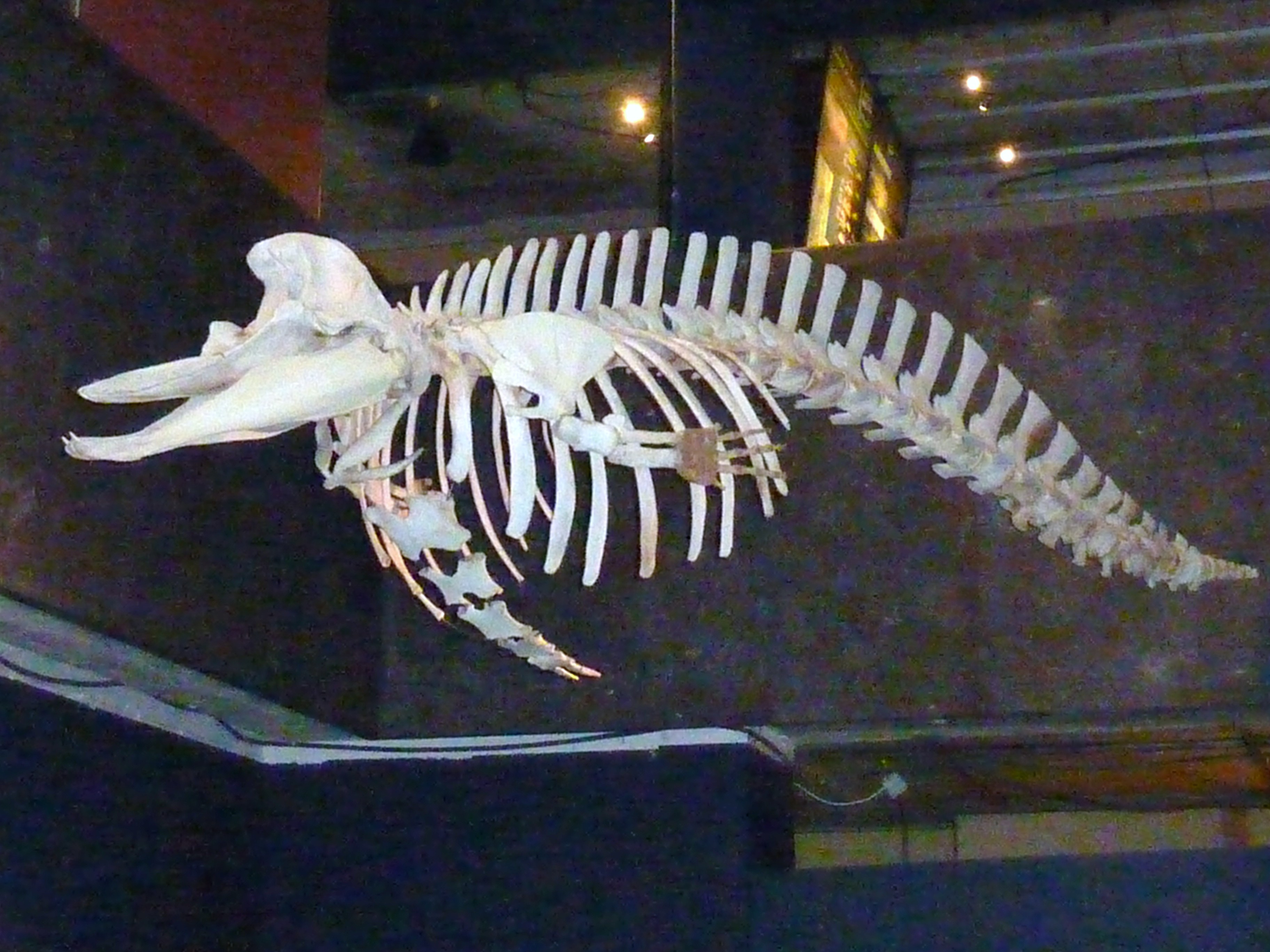 Cuvier's beaked whale's skeleton (Ziphius cavirostris)